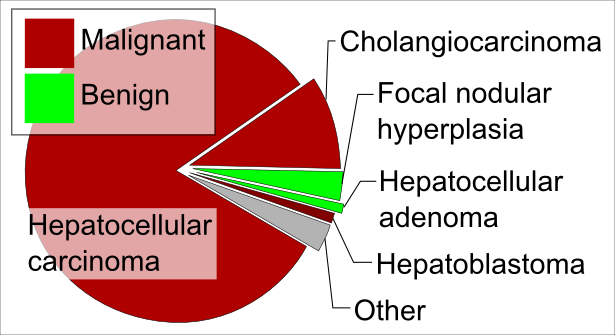 Liver tumor types by relative incidence in adults in the United States. Reference: Table 37.2 in: Sternberg, Stephen (2012) Sternberg's diagnostic surgical pathology, LWW ISBN: 978-1-4511-5289-0. OCLC: 953861627.